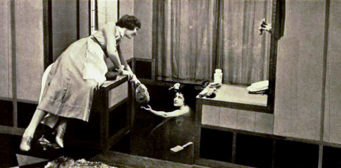 Still from an advertisement for the American film Male and Female (1919) with Gloria Swanson, on page 1704 of the August 30, 1919 Motion Picture News. The caption for the image is "Milady's Bath."